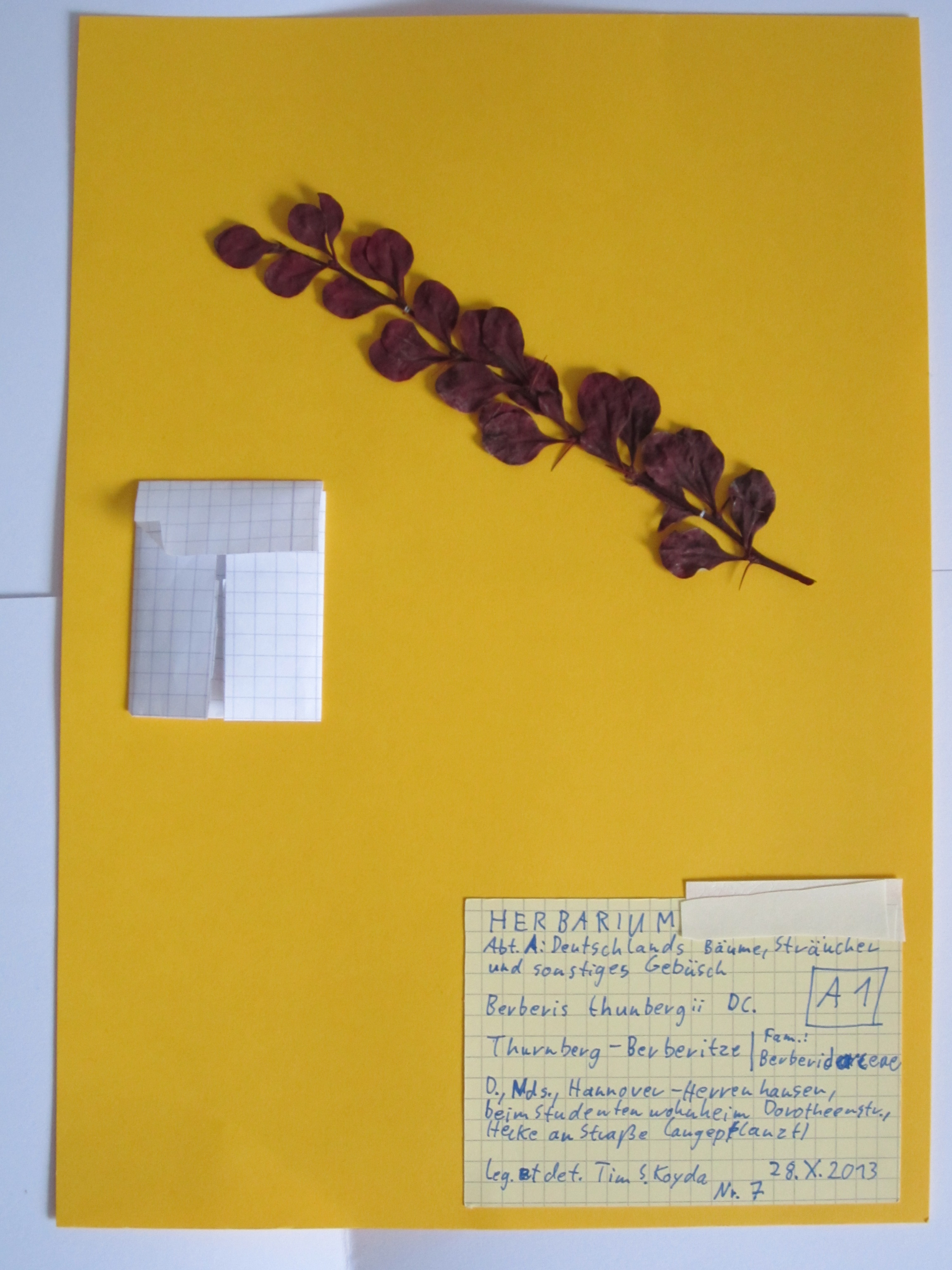 Berberis thunbergii